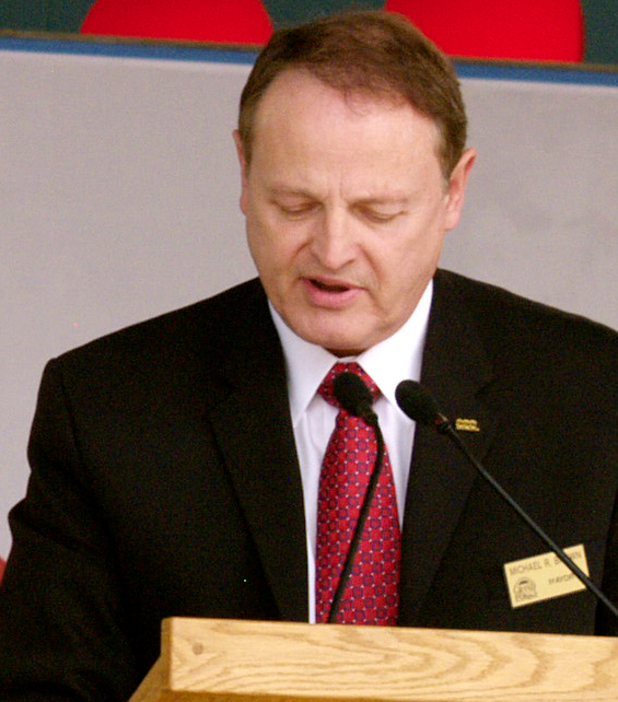 Mayor of Grand Forks, North Dakota Dr. Michael R. Brown This file has been extracted from another file: FEMA - 29447 - Photograph by Michael Rieger taken on 04-22-2007 in North Dakota.jpg